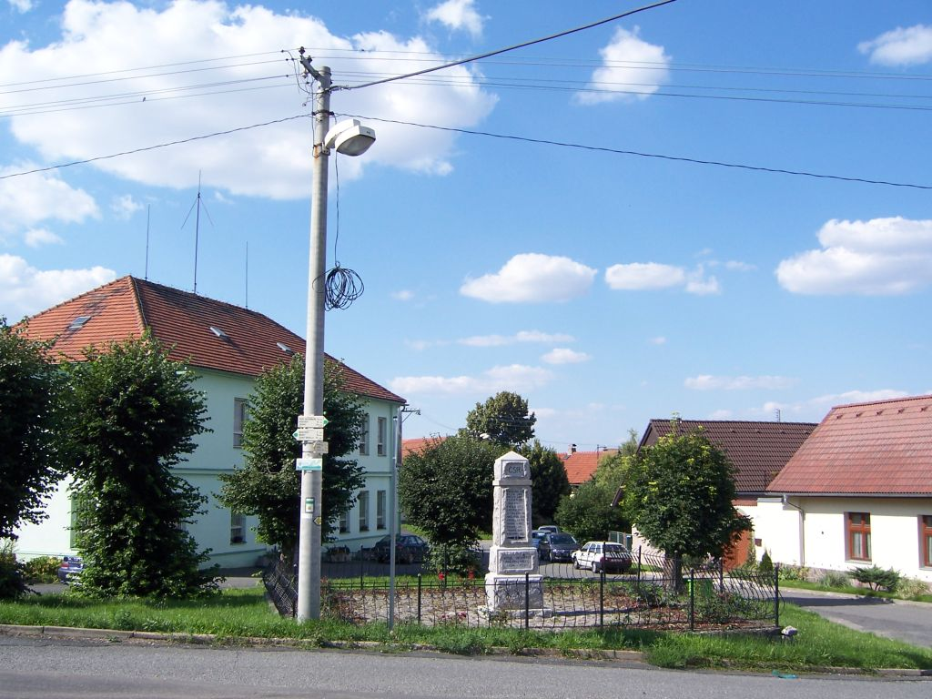 Doubravčice, village square - monument